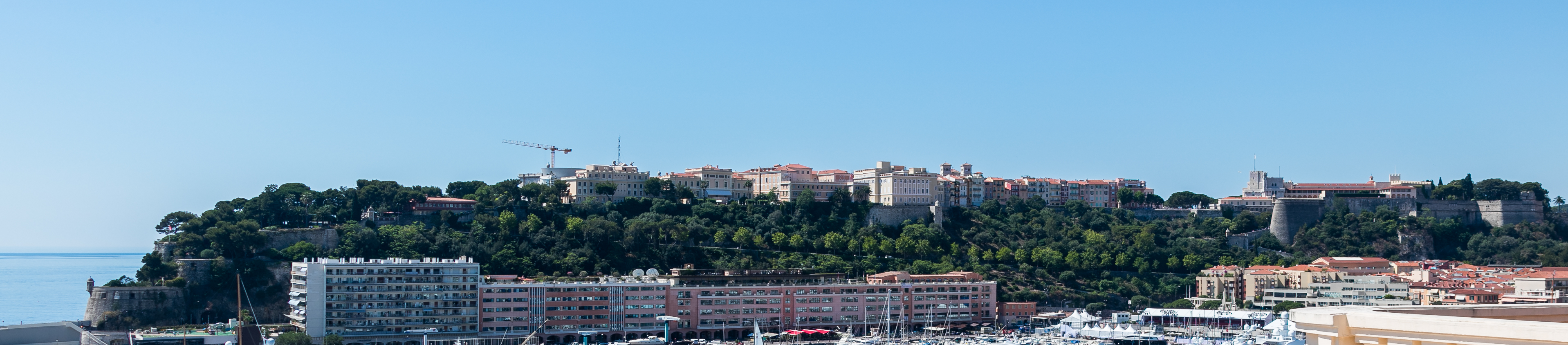 View of Monaco